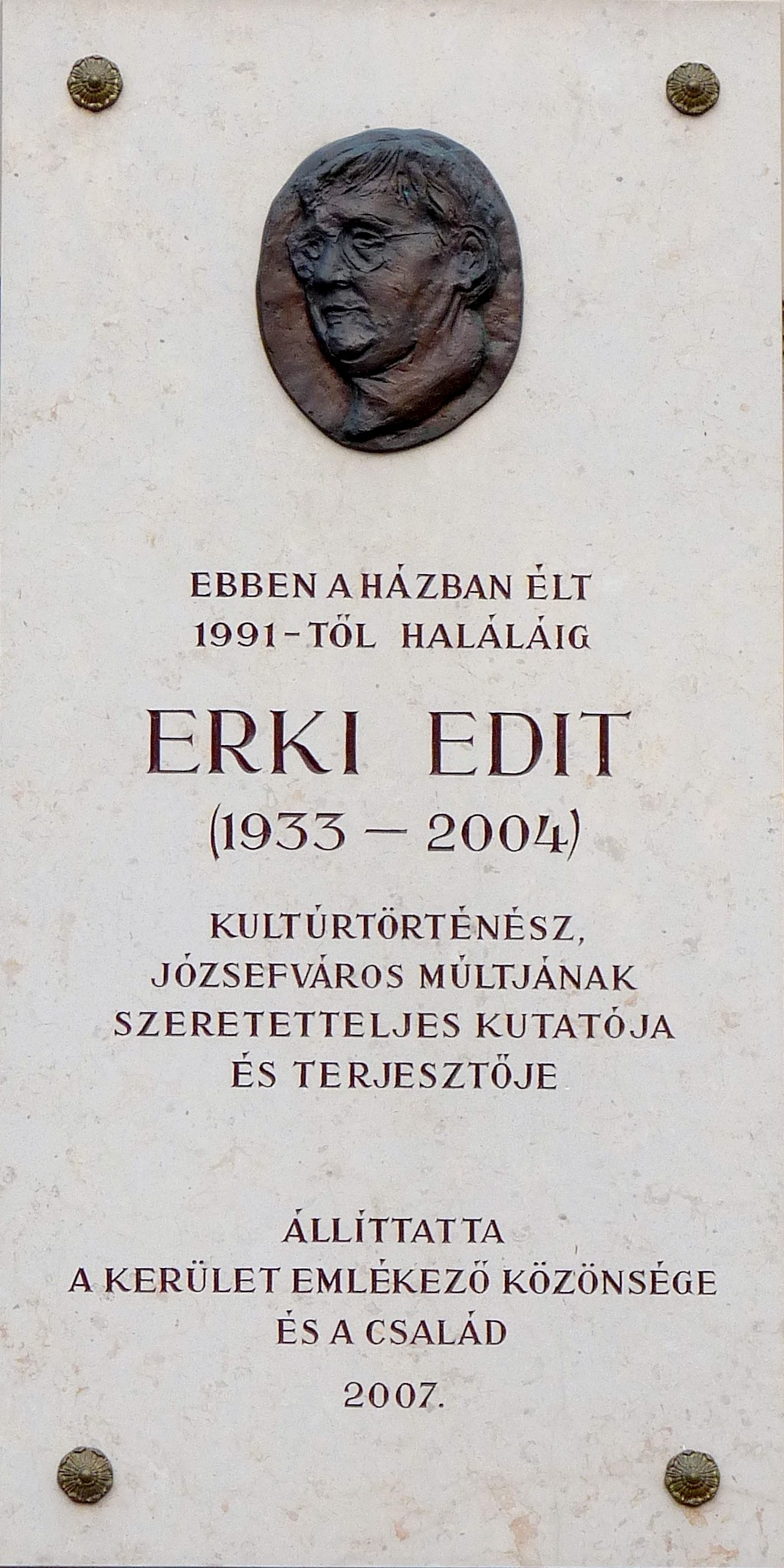 Edit Erki commemorative plaque with relief in Budapest District VIII, Horváth Mihály Square No 12.